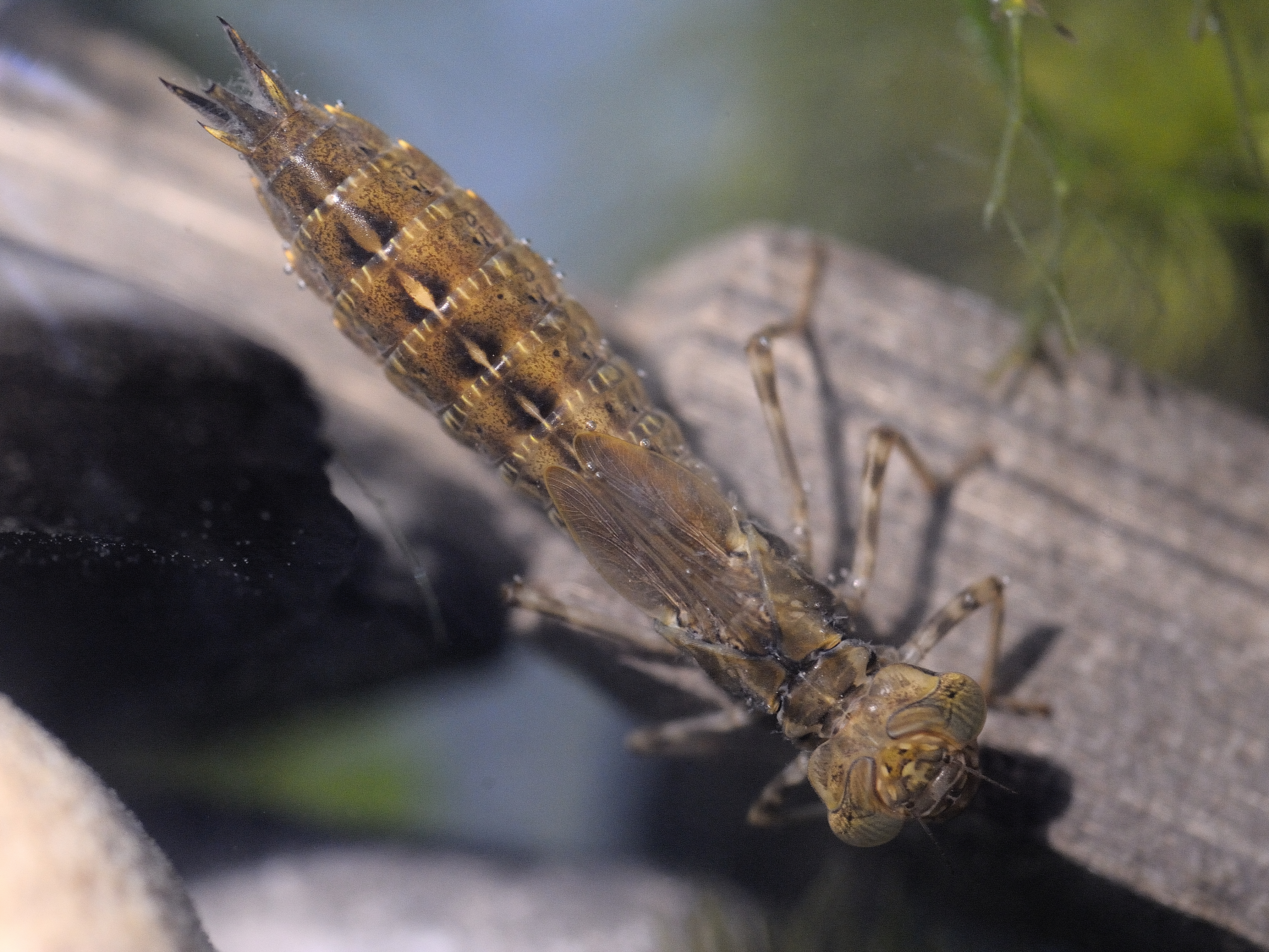 Nymph of Aeshna cyanea overwintering in a fish tank